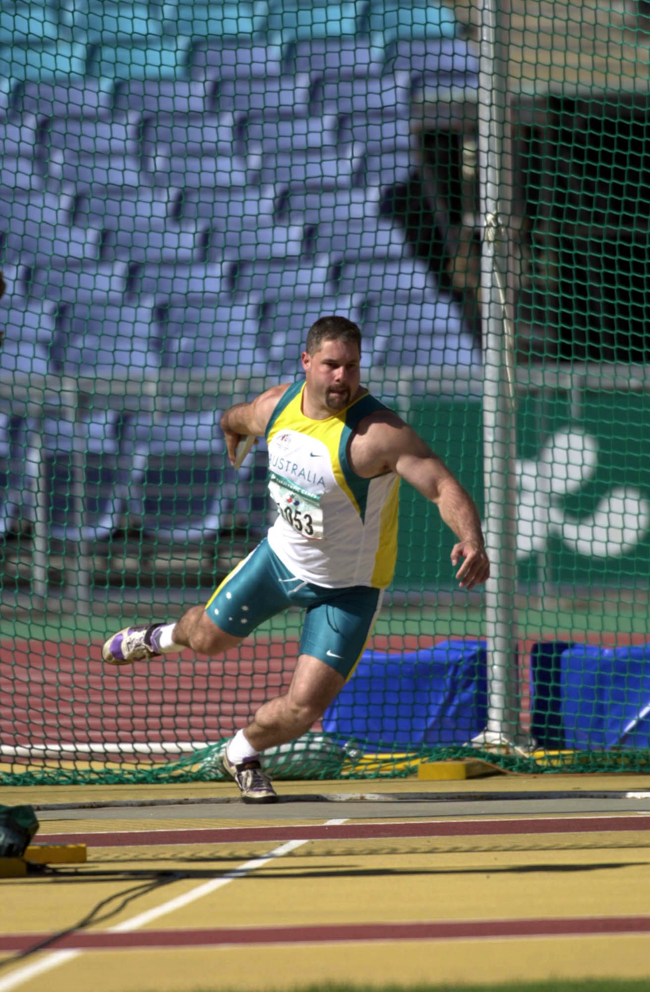 Action shot of Australian field athlete Russell Short throwing the discus during discus F12 competition at the 2000 Sydney Paralympic Games, Day 10. Short won gold in this event.